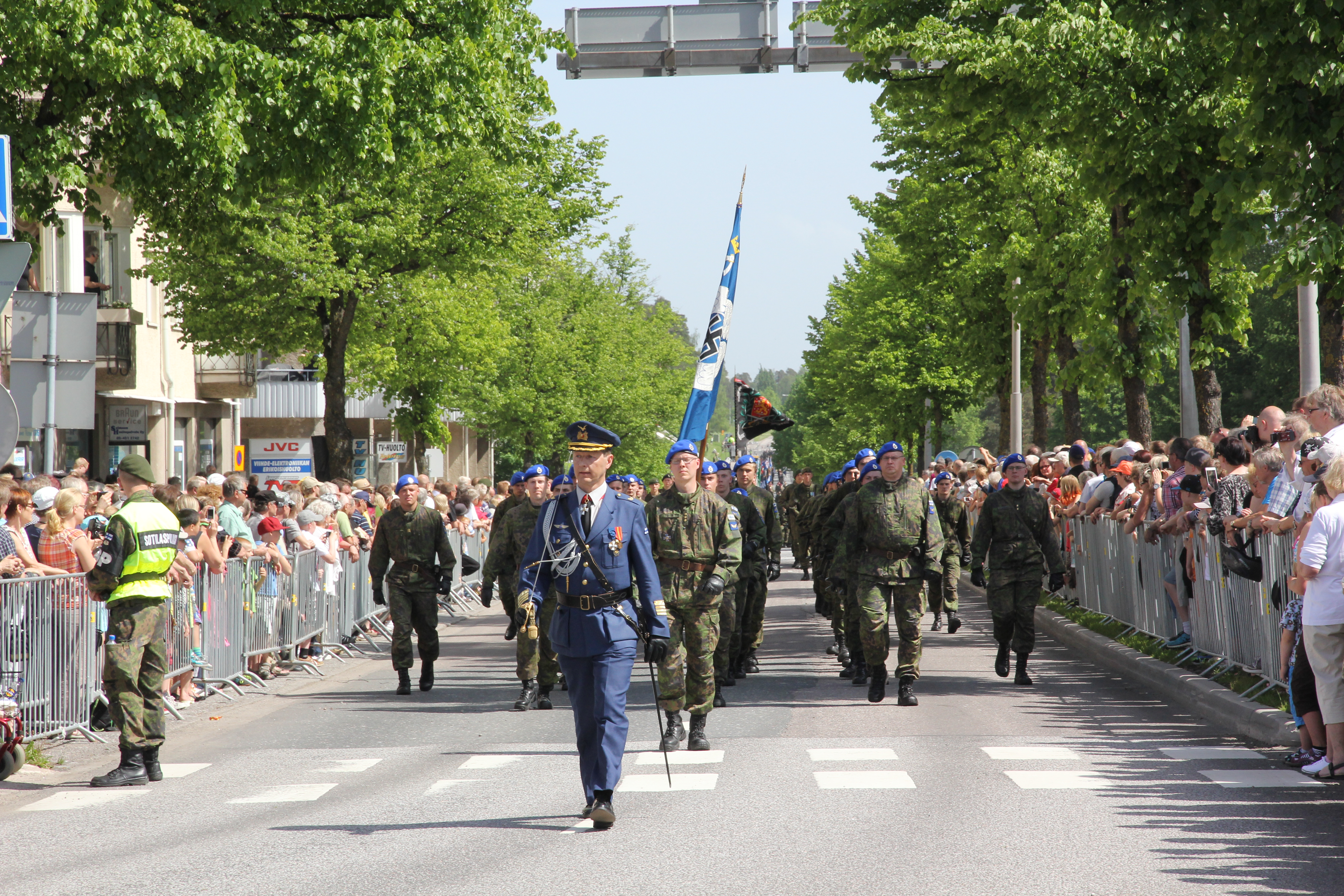 Karelian air command and air force academy during the Finnish military Flag Day 2014 parade along Valtakatu street in Lappeenranta. Colonel Ossi Sivén leading.